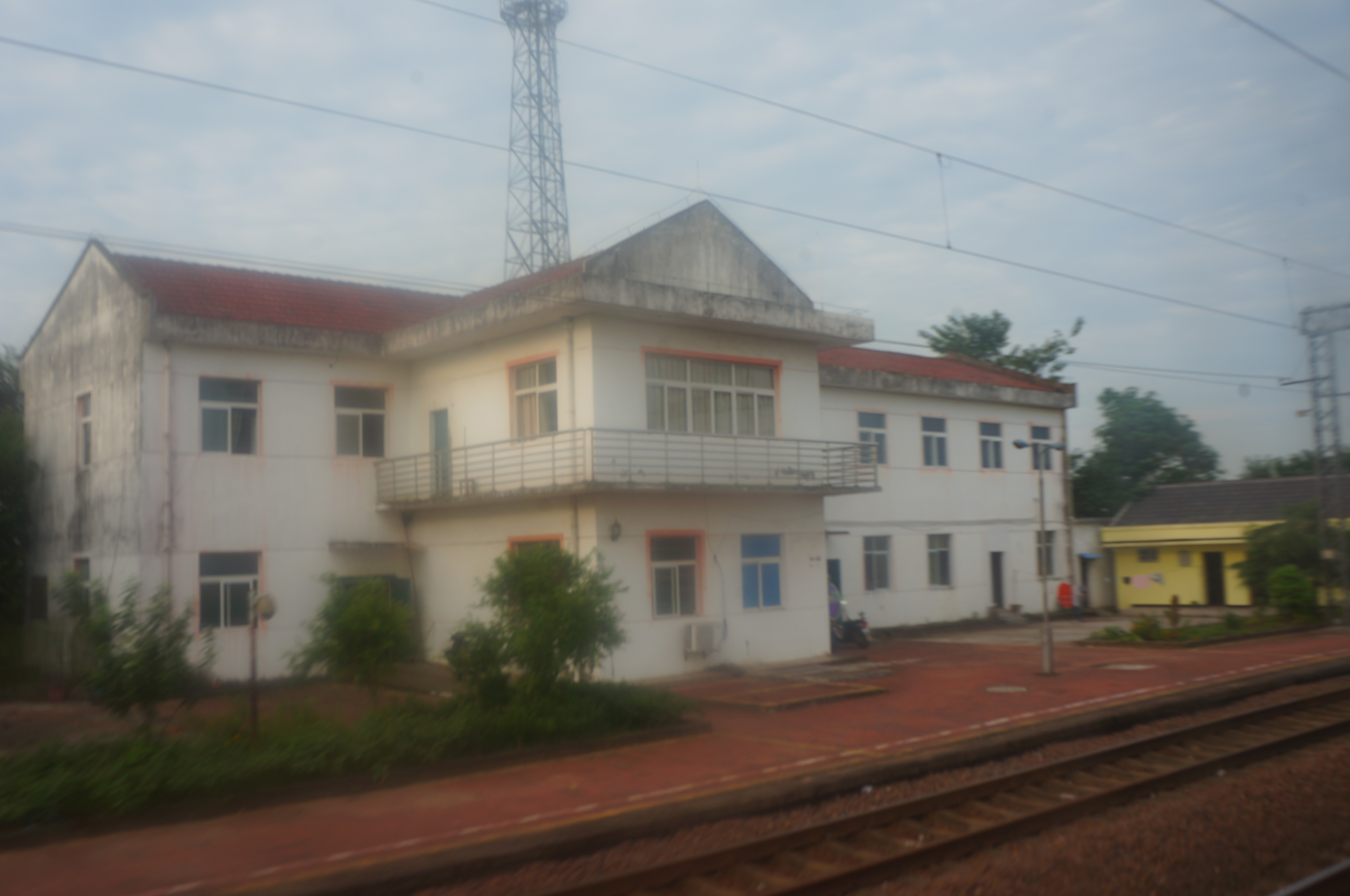 201708 Hetanbu Railway Station